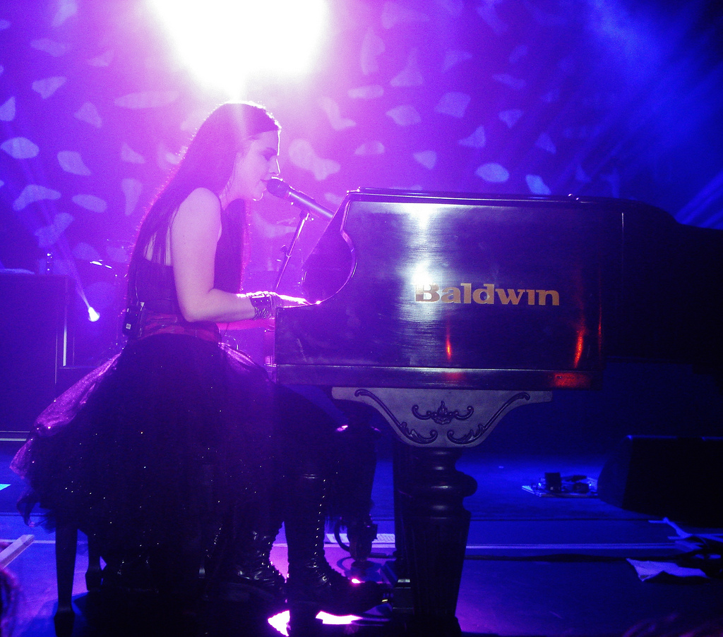 Amy Lee performing on October 25, 2011 during Evanescence's latest tour in promotion for their third self-titled release record.